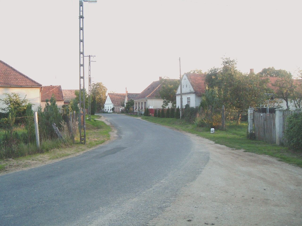 Döröske